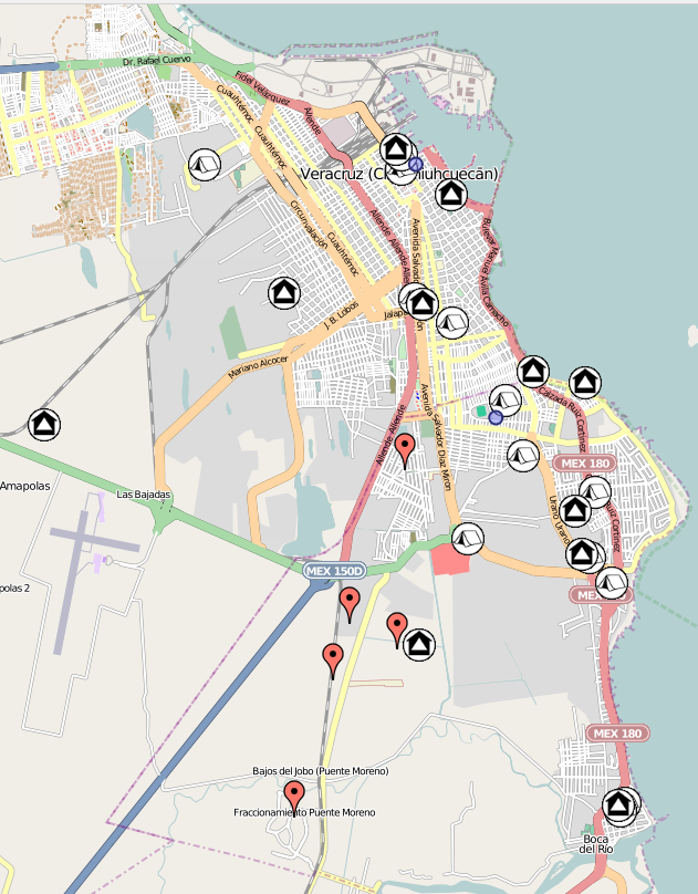 Map of the Veracruz City (Puerto de Veracruz) due to the Hurricane Karl Disaster in September 2010. Drastical floods took place with several parts of the City and other Regions several damaged. Hundreds of people were affected. Mark descriptions: Red mark, Incidents reported; Black houses, Warehouses; Camping tents, Shelters; Blue dots, multiple. The information in the map is not completed. Many particulars and organization as well as the government of the State of Veracruz make efforts and support facilities, nevertheless anyone is to be known to have a complete report of such information. The information was taken from the local media, mainly internet web pages of local newspapers and radio station "XEU de Veracruz". The information is detailed in the referenced website (source).